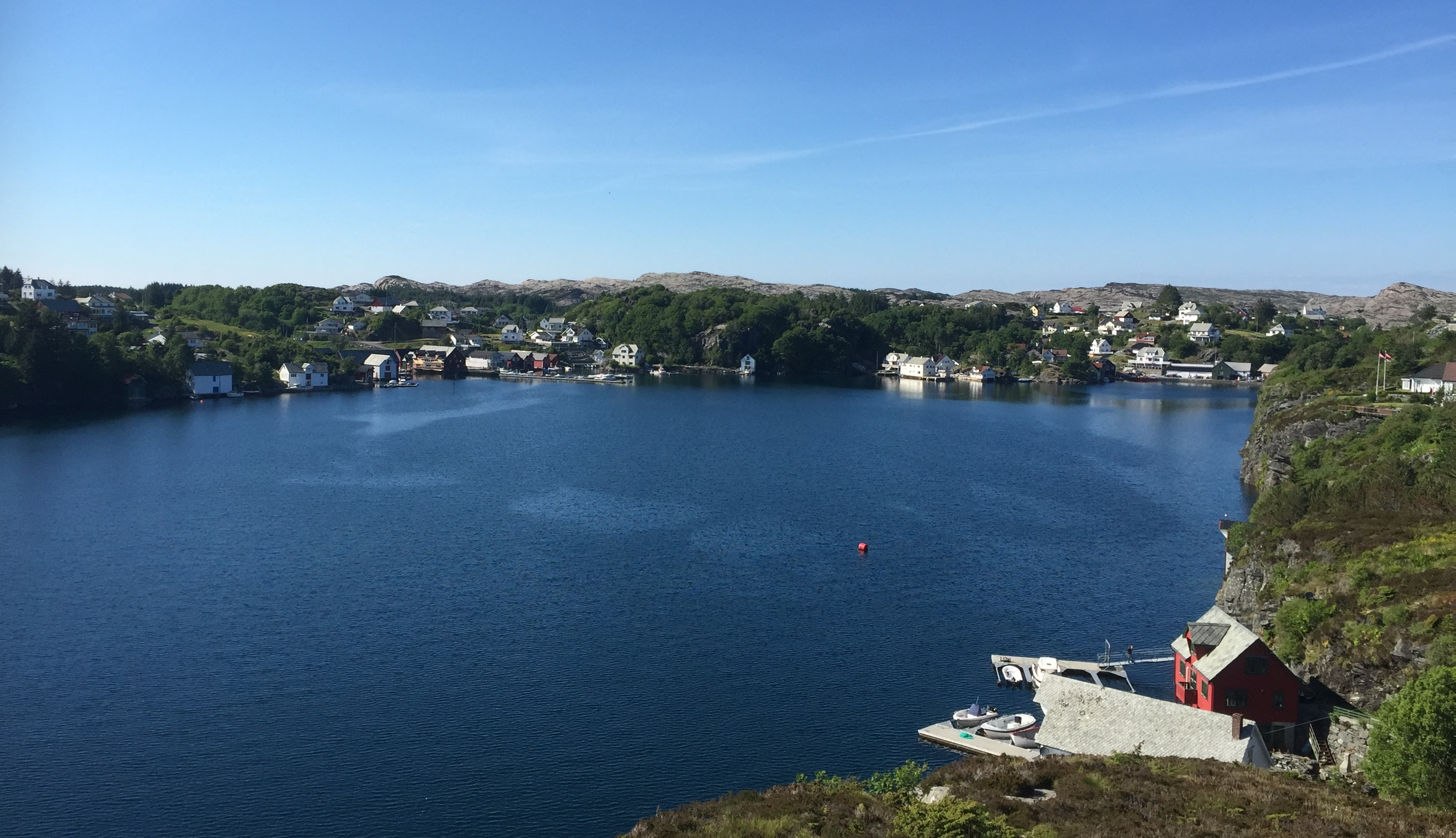 Telavåg